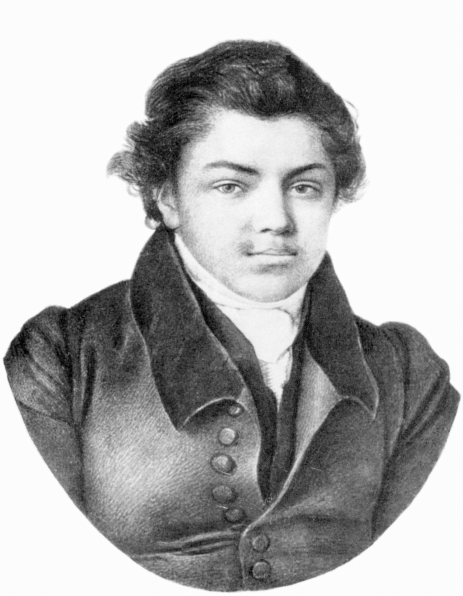 Portrait (watercolour) of Russian Poet Nikolaj Jazykov (1803-1846) (Derpt, 1822)